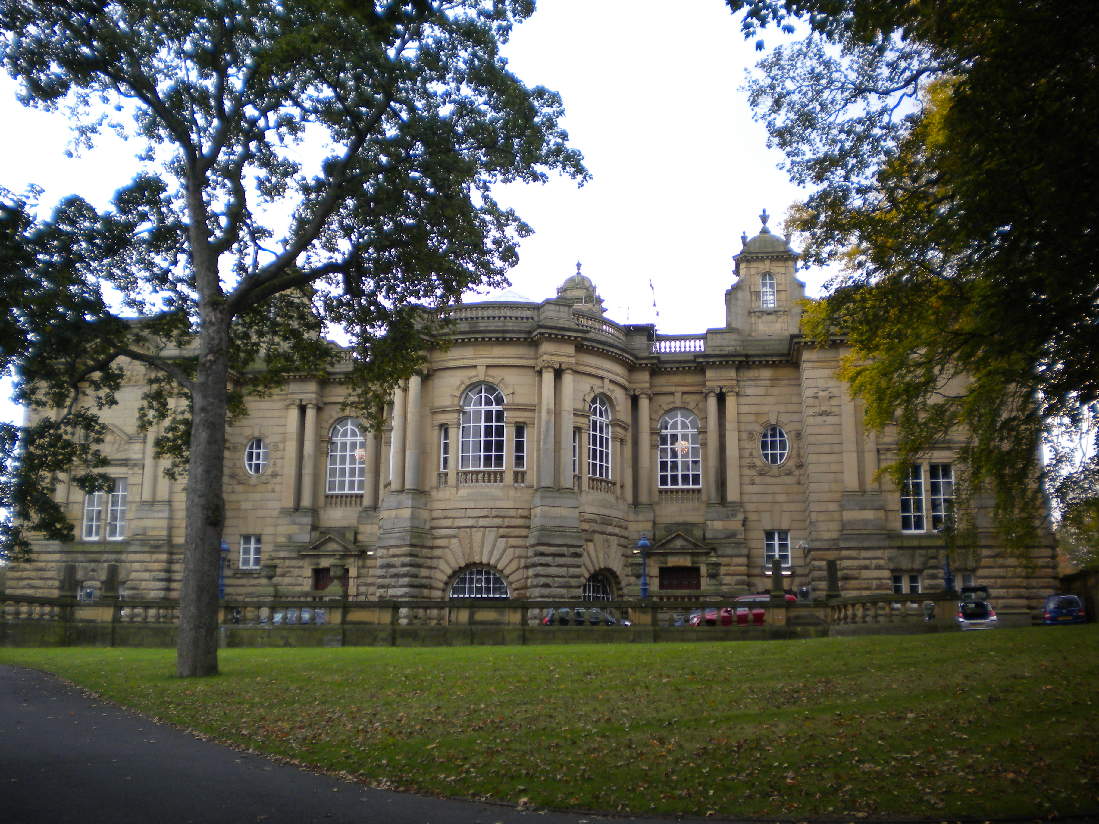 Cartwright Hall in Lister Park, Bradford, England seen from the North.